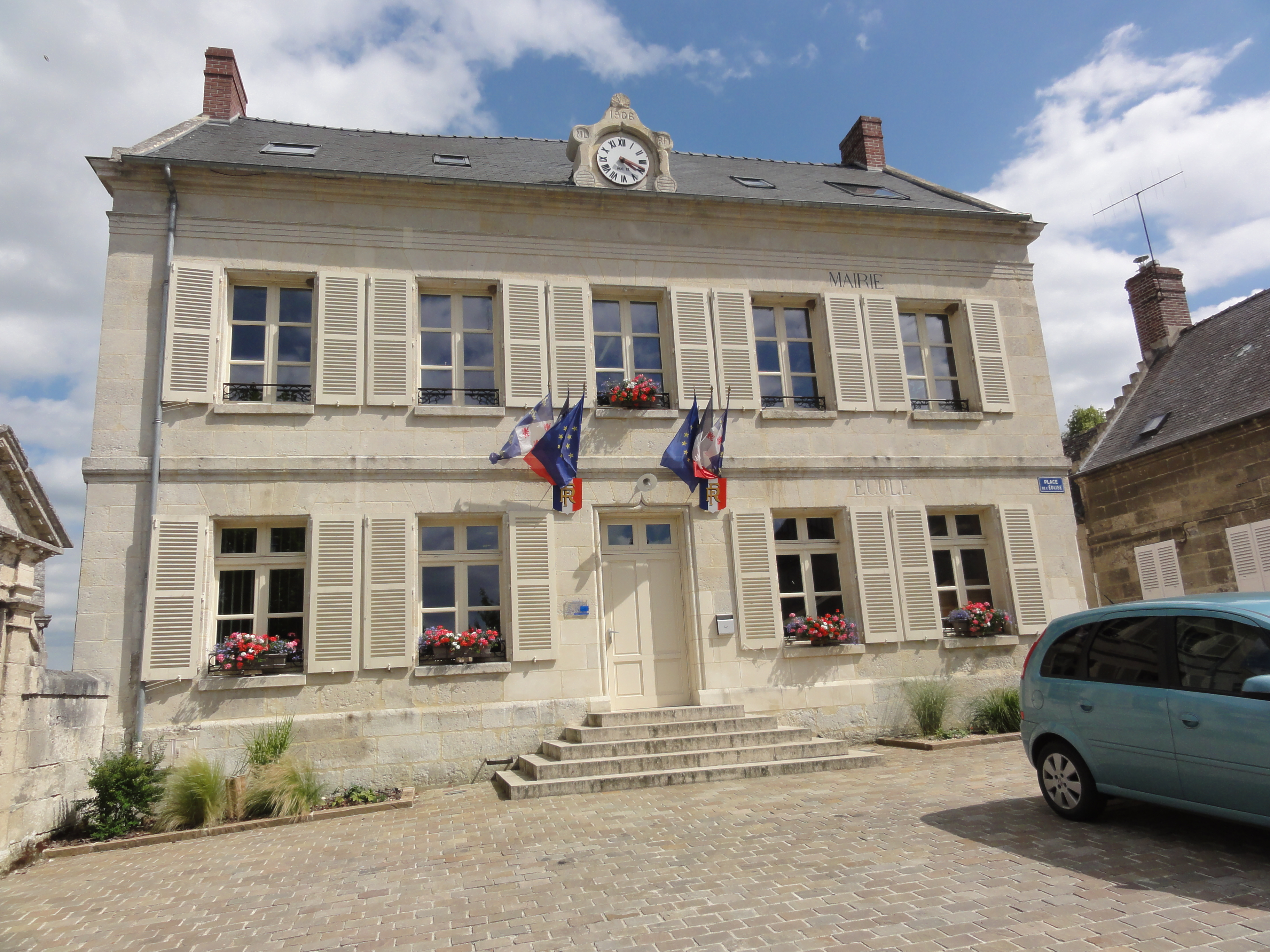 Montigny-Lengrain (Aisne) mairie-école